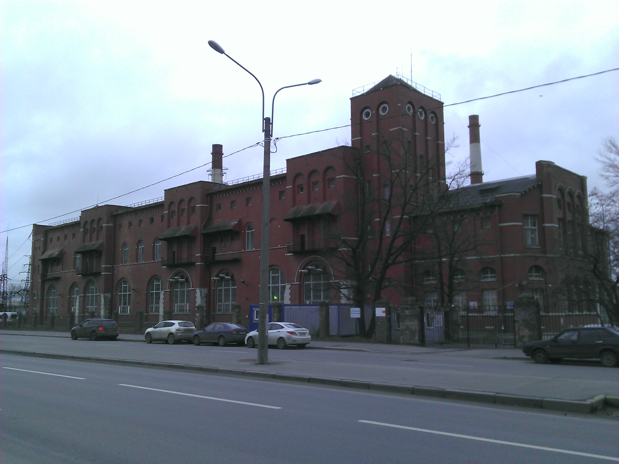 Старый ГЩУ подстанции 330 кВ «Волхов-Северная».